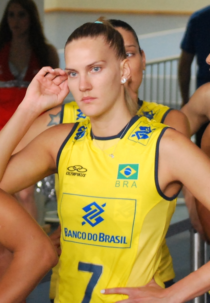 Mari (Marianne Steinbrecher), volleyball player from Brazil